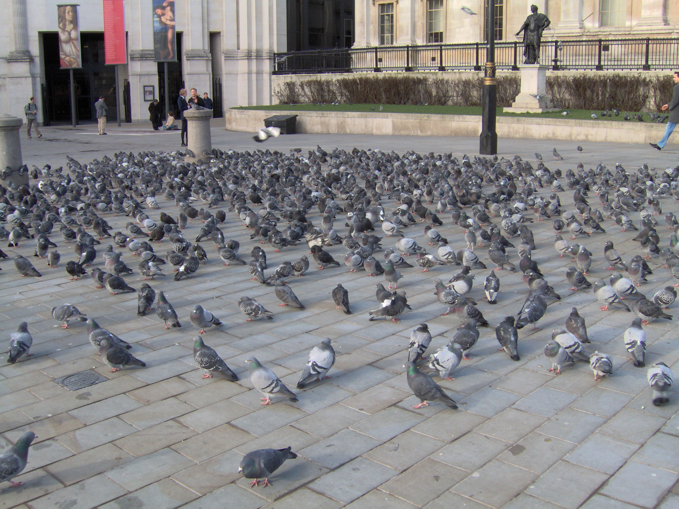 Pigeons on Trafalgar Square in London, 2006. Taken by ProhibitOnions.